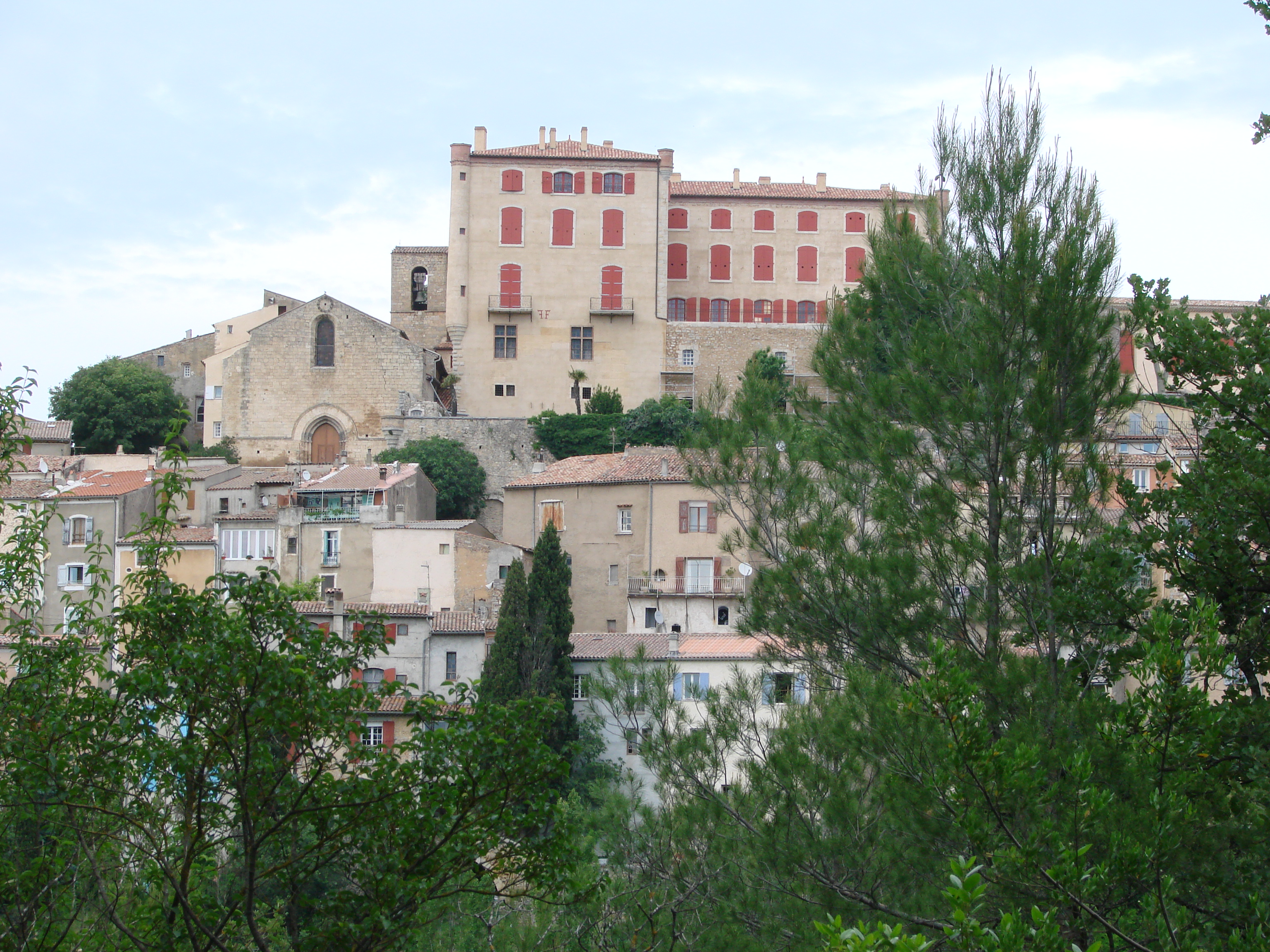 Chateau and village of La Verdiere, 83560 France